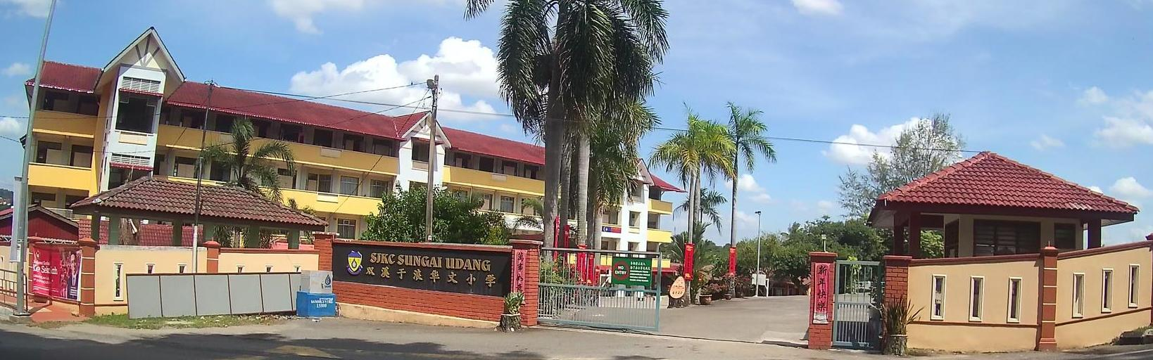 SJK (C) Sungai Udang